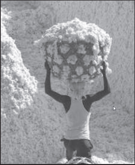 ಅರಳೆ, ಗುಜರಾತಿನ ಒಂದು ಮುಖ್ಯ ಉತ್ಪನ್ನ